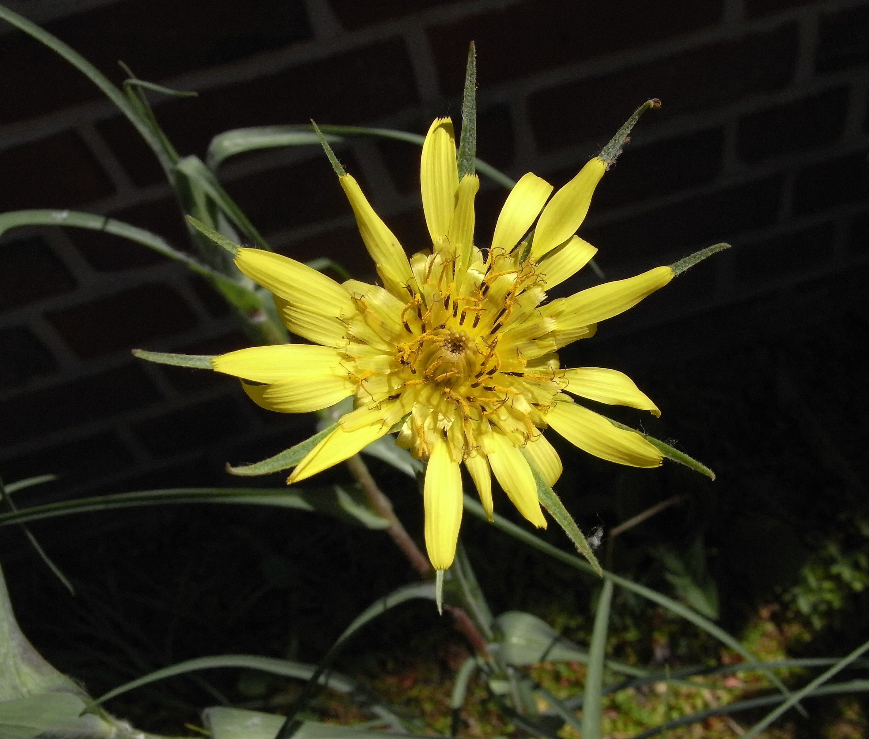 Meadow Salsify